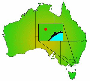 A distribution map of the Shaw Galaxias a freshwater fish found in East Gippsland, Victoria, Australia